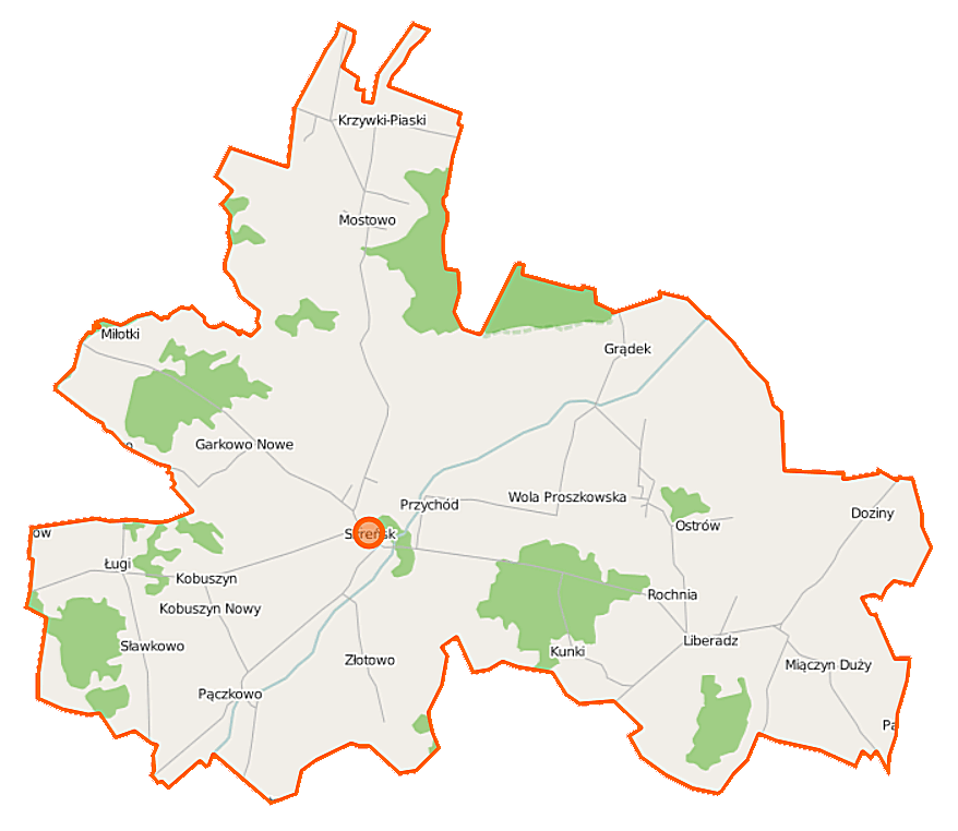 Map of Gmina Szreńsk, Poland This map of Szreńsk (gmina) was created from OpenStreetMap project data, collected by the community. This map may be incomplete, and may contain errors. Don't rely solely on it for navigation. Border coordinates53.092420.0291←↕→20.270152.9662